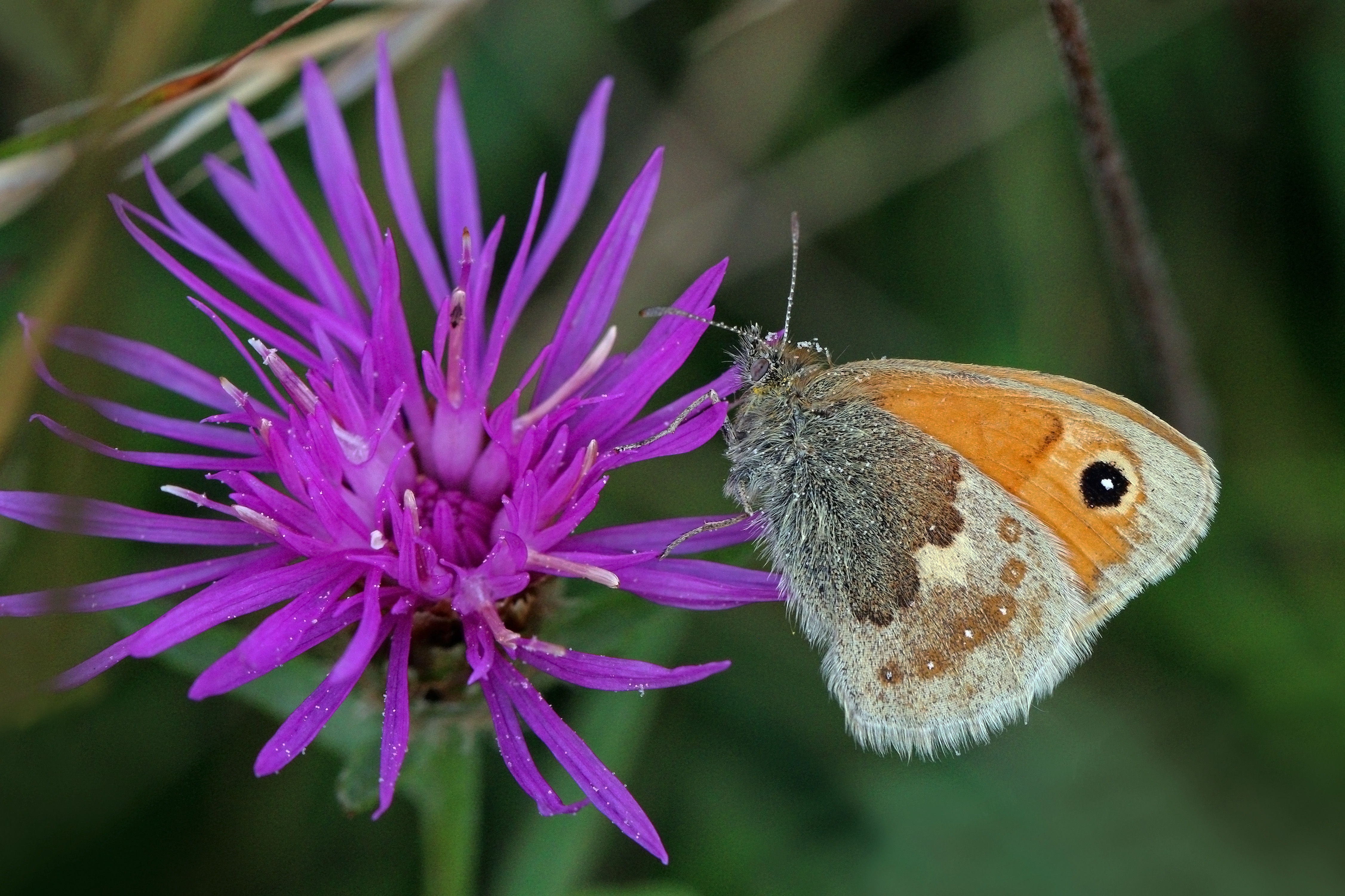 Small heath butterfly (Coenonympha pamphilus) on common knapweed (Centaurea nigra), Beacon Hill, Hampshire. The small white pupils on the underside of the hind wings are very variable. This specimen has particularly distinct spots, each surrounded by rings of brown